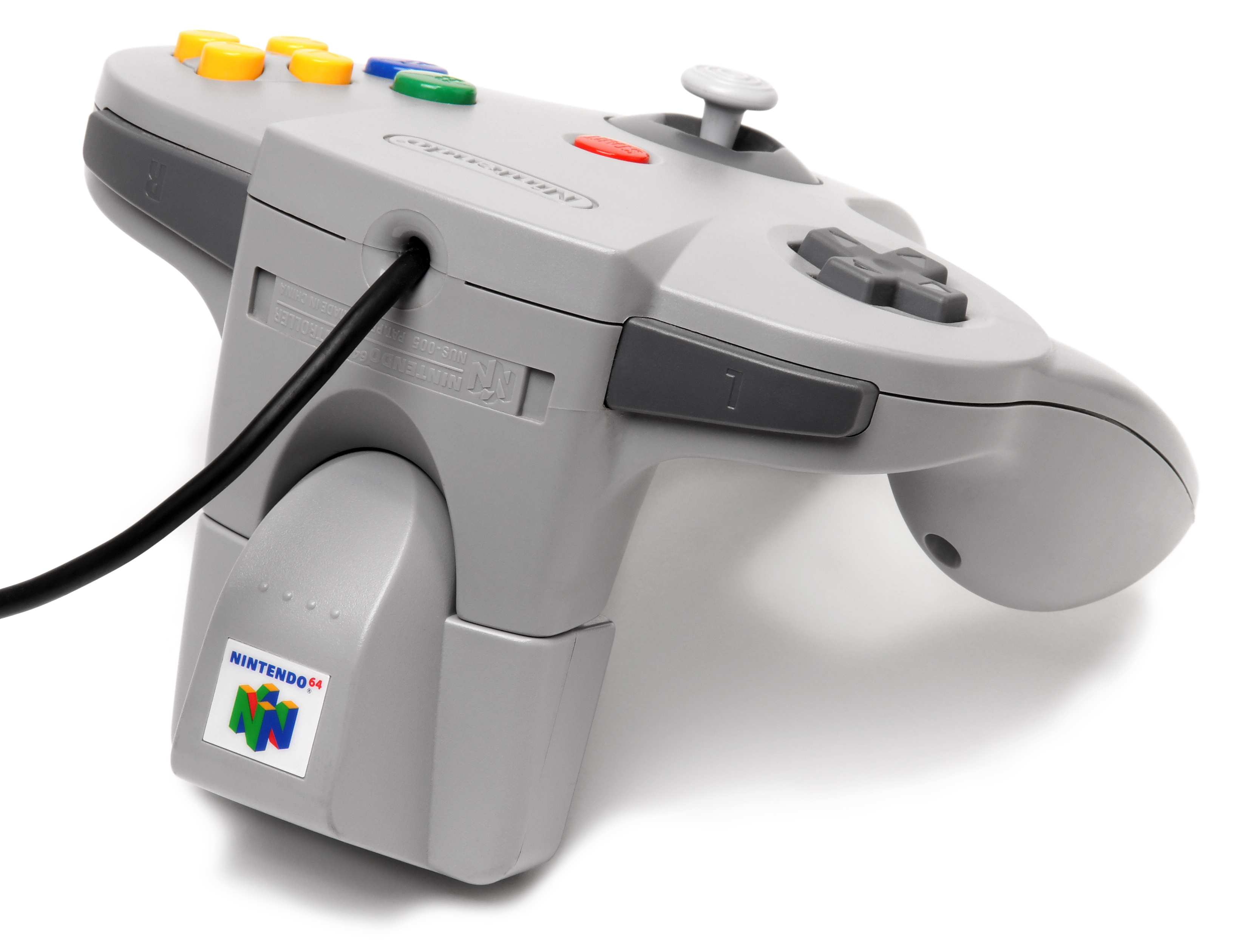 An N64 Rumble Pak shown attached to a gray N64 controller. Runs off two AAA batteries.